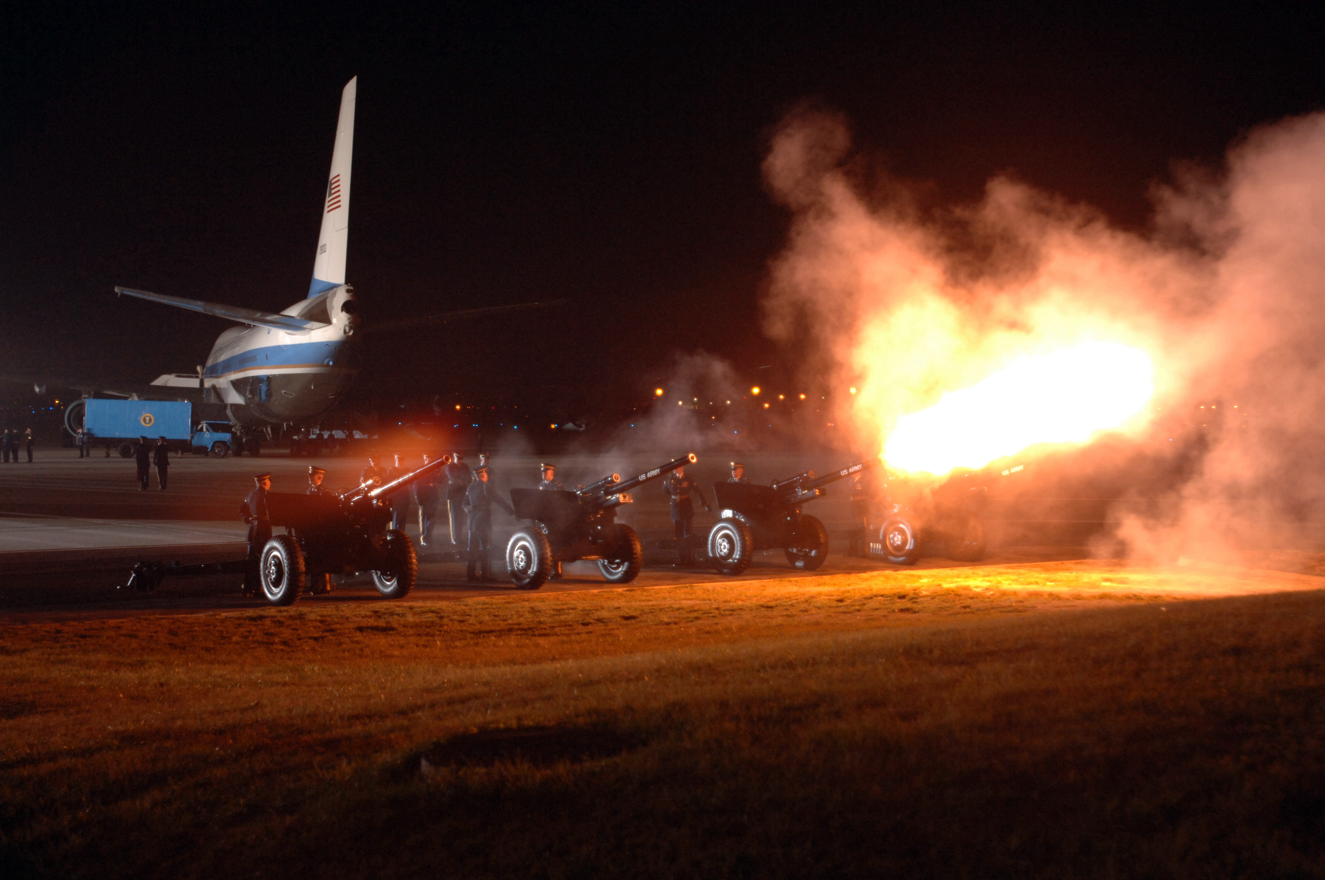 Andrews Air Force Base, Md. (Dec. 30, 2006) – Members of the Presidential Salute Gun Platoon, 3rd U.S. Infantry Regiment perform a 21-gun salute honor the arrival of the casket carrying former President Gerald R. Ford as he arrives at Andrews Air Force Base, Md., Dec. 30, 2006, during a national farewell funeral procession honoring the former commander in chief. DoD personnel are helping to honor Ford, the 38th president of the United States, who passed away on Dec. 26th. Ford's remains were flown to Washington, D.C., for a state funeral in the Capitol Rotunda and a funeral service at the Washington National Cathedral, followed by burial services at the Gerald R. Ford Presidential Museum in Grand Rapids, Mich. U.S. Air Force photo by Tech. Sgt. Jason W. Edwards (RELEASED)